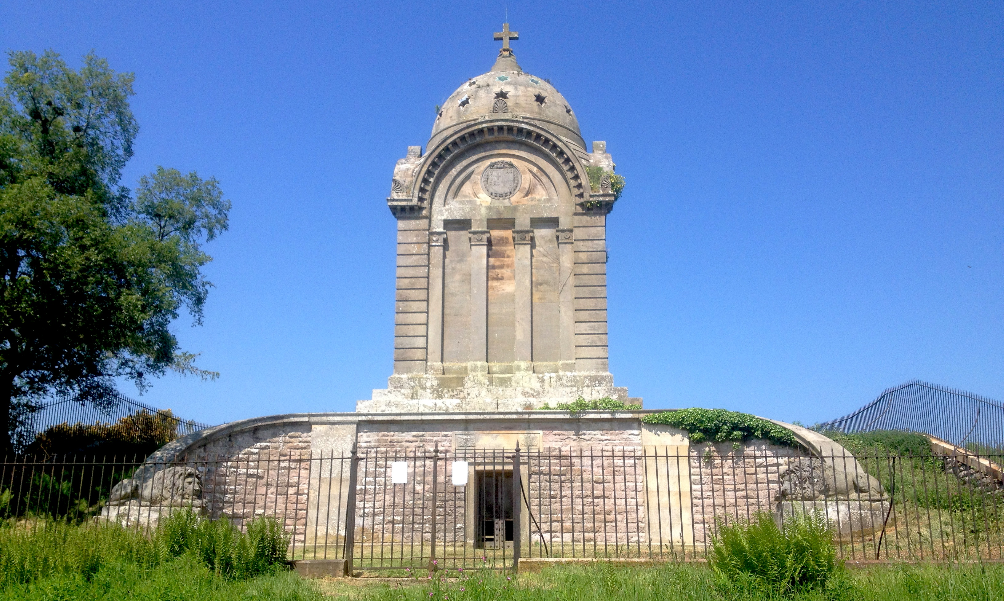 The magnificent tomb of Sir Thomas Monteath Douglas, 1864, located high on Lilliards Edge, Near Ancrum, Scottish borders Wikidata has entry Q17845440 with data related to this item.